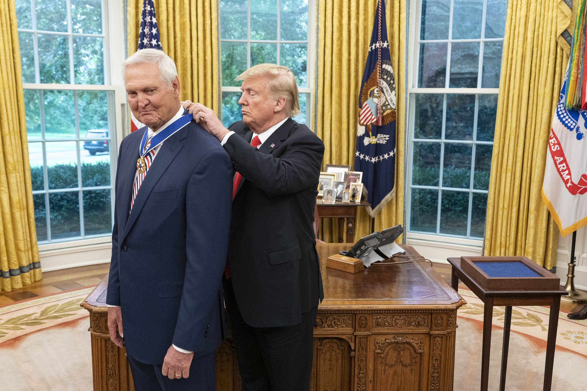 President Donald J. Trump presents the Presidential Medal of Freedom, the nation’s highest civilian honor, to Hall of Fame Los Angeles Lakers basketball star and legendary NBA General Manager Jerry West Thursday, Sept. 5, 2019, in the Oval Office of the White House. (Official White House Photo by Shealah Craighead)